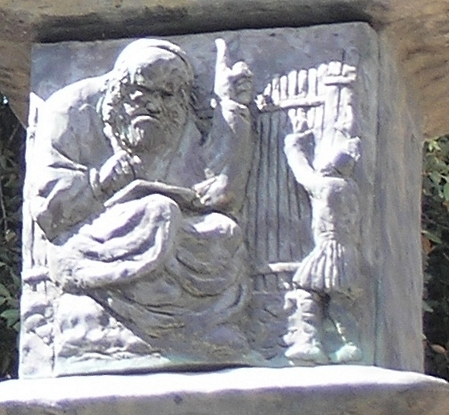 The Knesset Menorah, Jerusalem (detail - Left side of the Menorah)